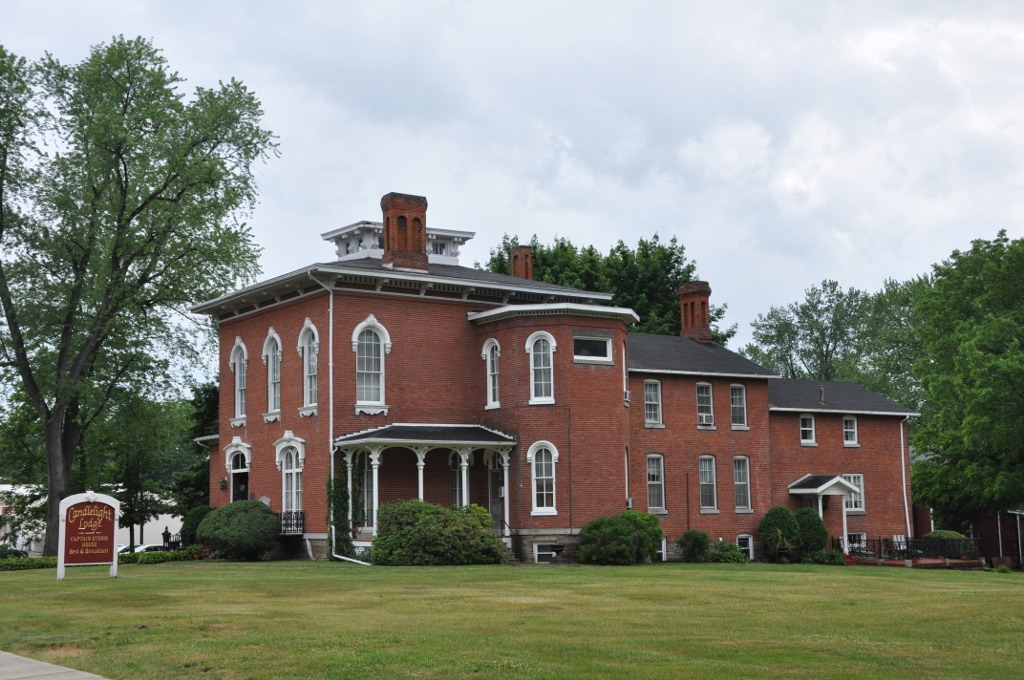 A house on East Main Street in Westfield, New York, part of the East Main Street Historic District.